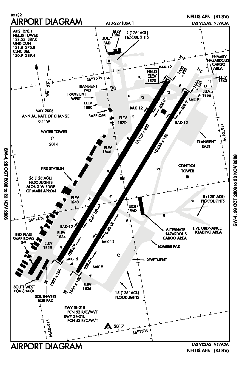 FAA airport diagram for LSV (Nellis Air Force Base) in Nevada, United States.